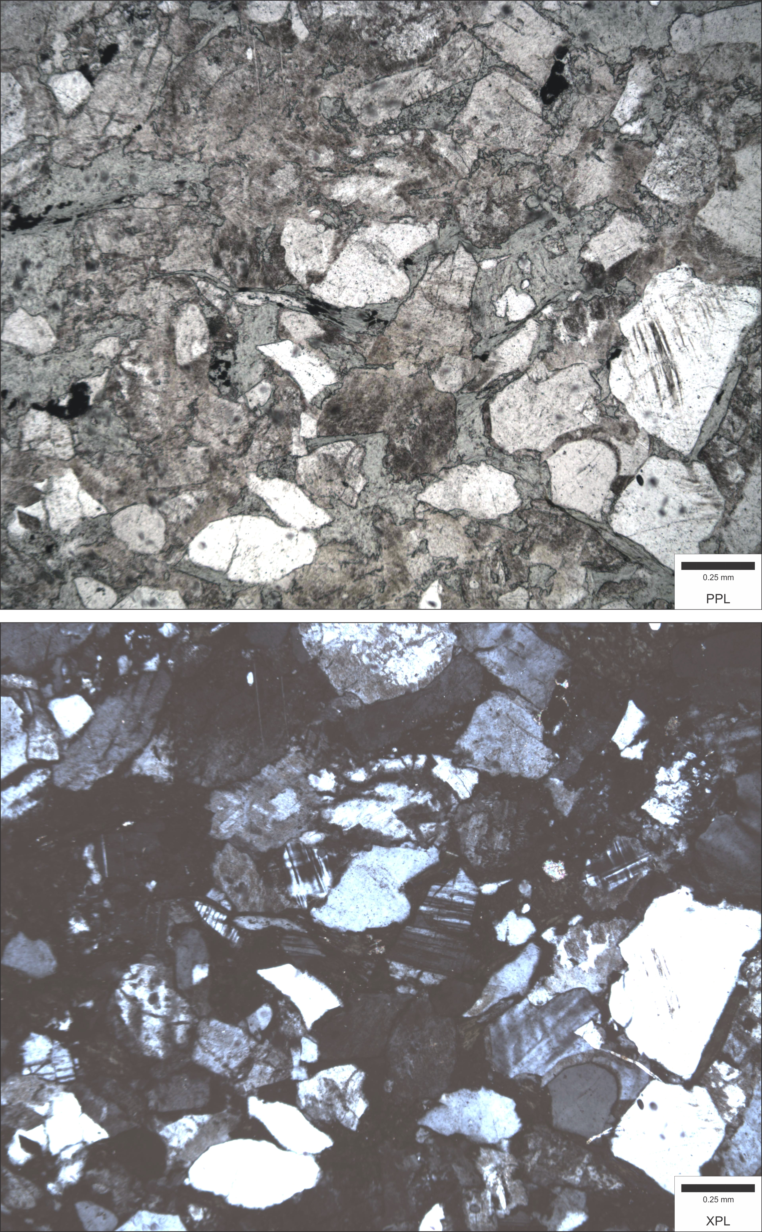 Photomicrograph of a feldspathic wacke (sandstone); unknown unit and age. Top image is in plane polarized light (PPL); bottom image is in cross polarized light (XPL). Blue epoxy fills pore spaces.